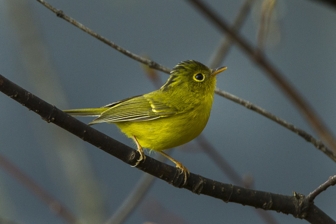 Golden-spectacled Warbler - Bhutan_S4E9774